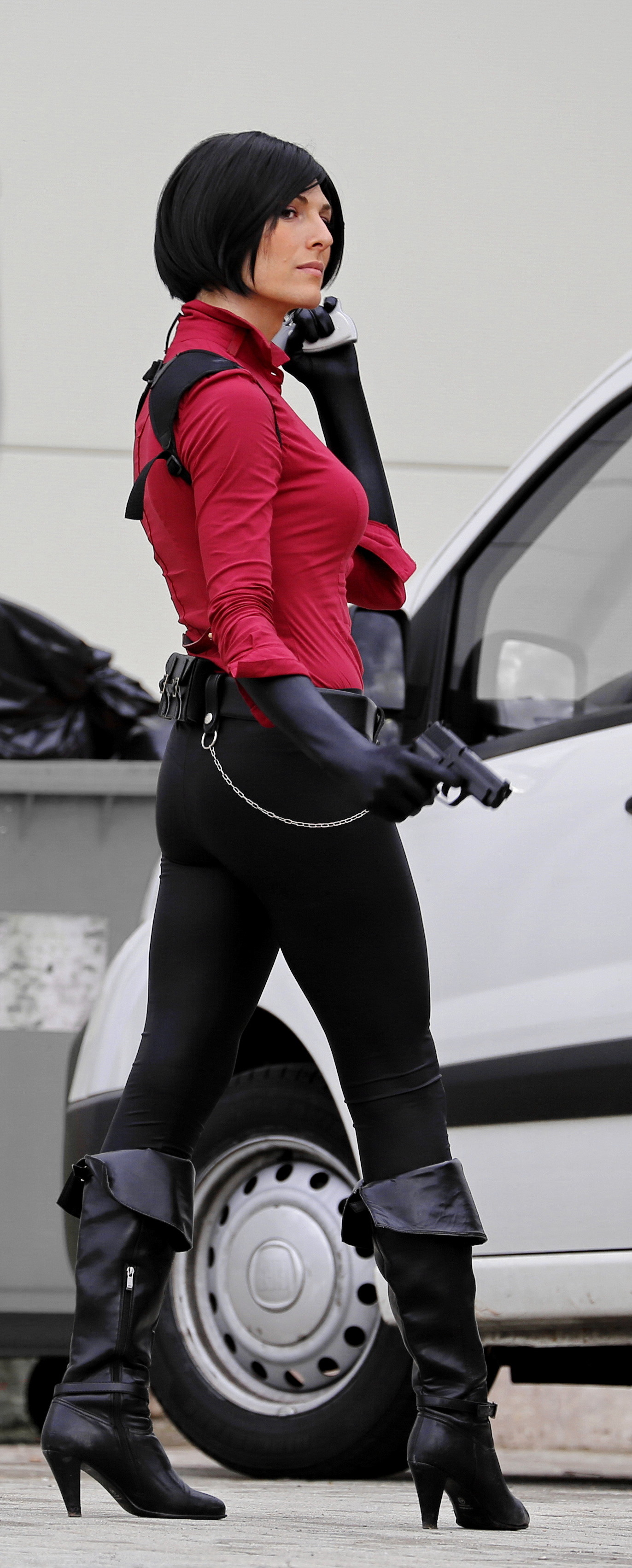 Taken on October 5, 2013 Canon EOS 6D